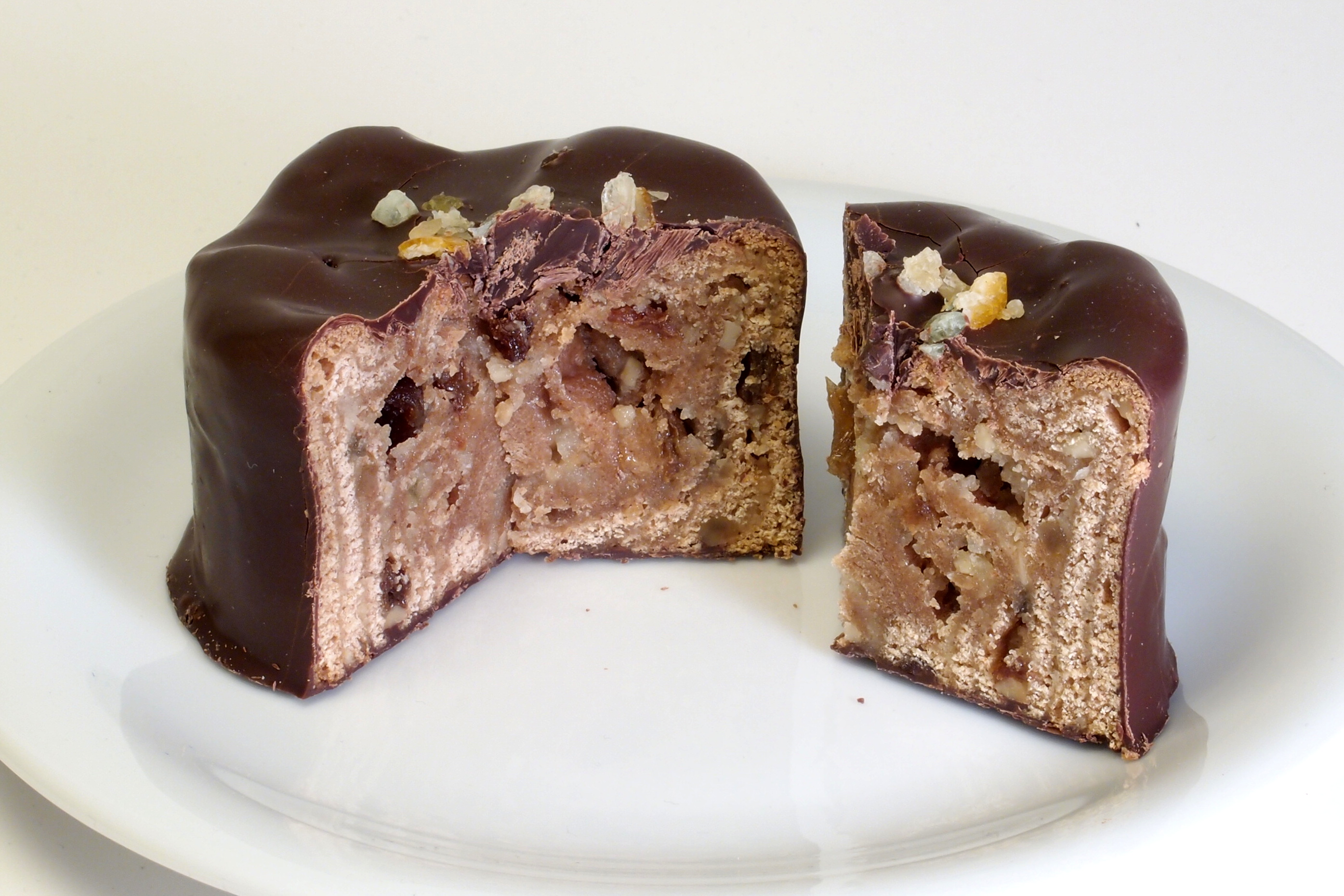 A “Liegnitz Bomb” (German: Liegnitzer Bombe), a German gingerbread confection originally from the Silesian city of Liegnitz (now Legnica, Poland). In this picture a segment of the body was cut out and placed next to it, offering a view of the filling. Liegnitz Bombs are high round cakes with a filling of marzipan and candied fruit. This particular specimen was manufactured by a Hamburg patisserie. It measures 45 mm tall and 75 mm in diameter.